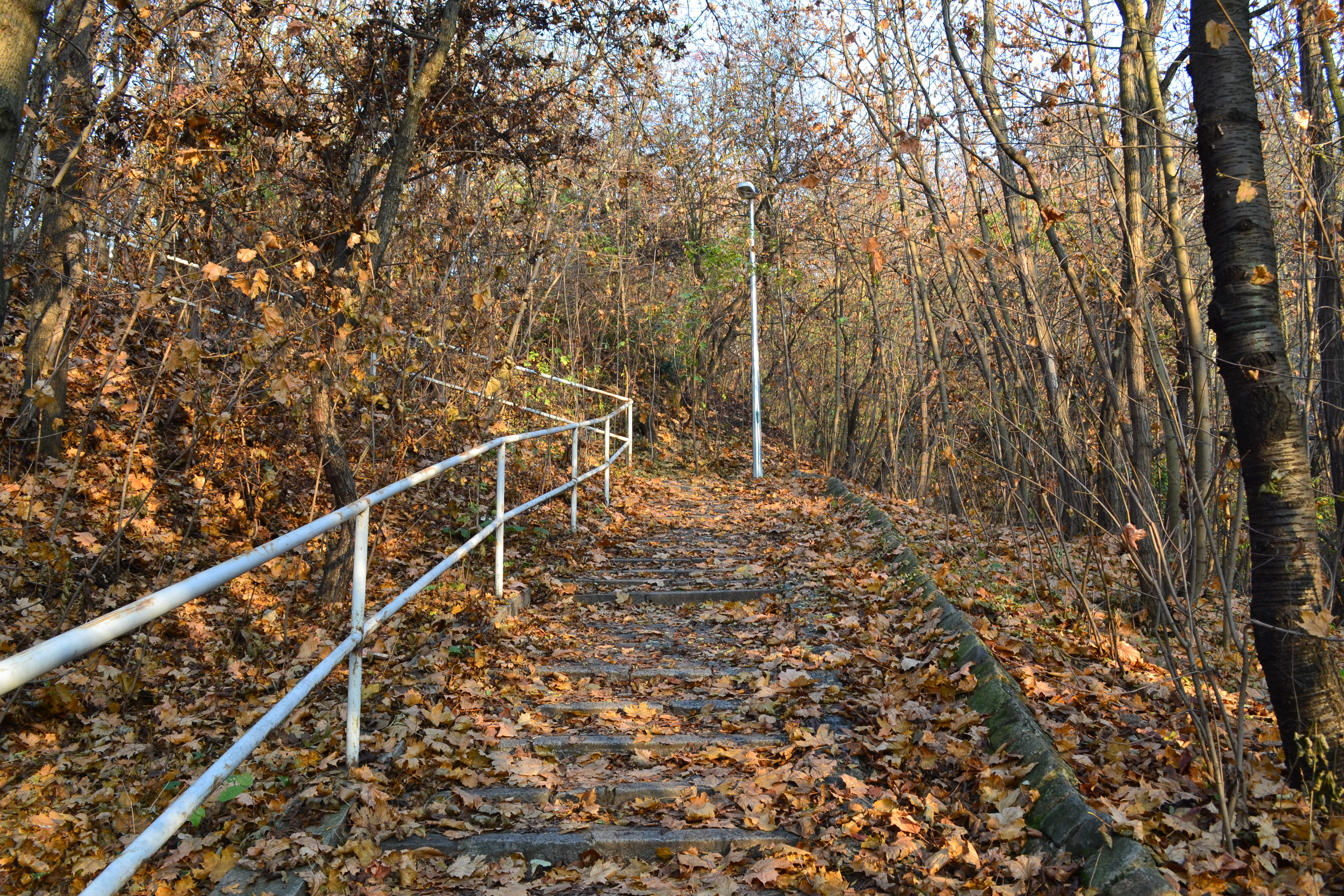 Natural monument Branické skály in Prague, Czech Republic